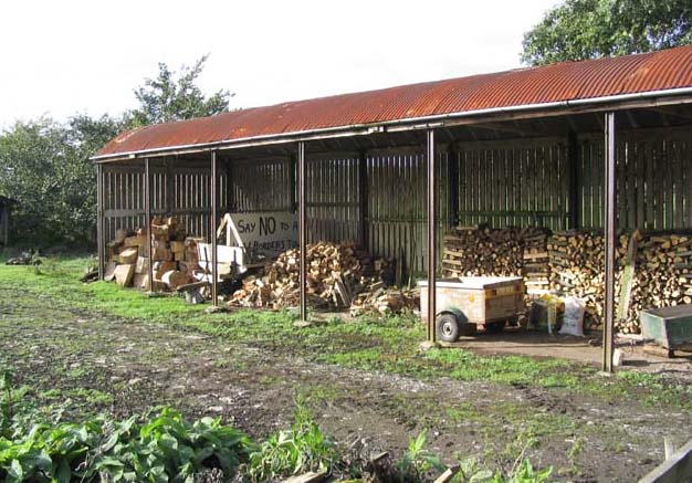 A wood shed at Ellison A sign is stored here "SAY NO TO A NEW BORDERS TOWN". This has been used in protest against Scottish Borders Council proposals for a new town in the St Boswells area. Many locals feel the proposed reinstatement of the Waverley Railway Line is an excuse to build lots of new houses that would spoil the Borders countryside.